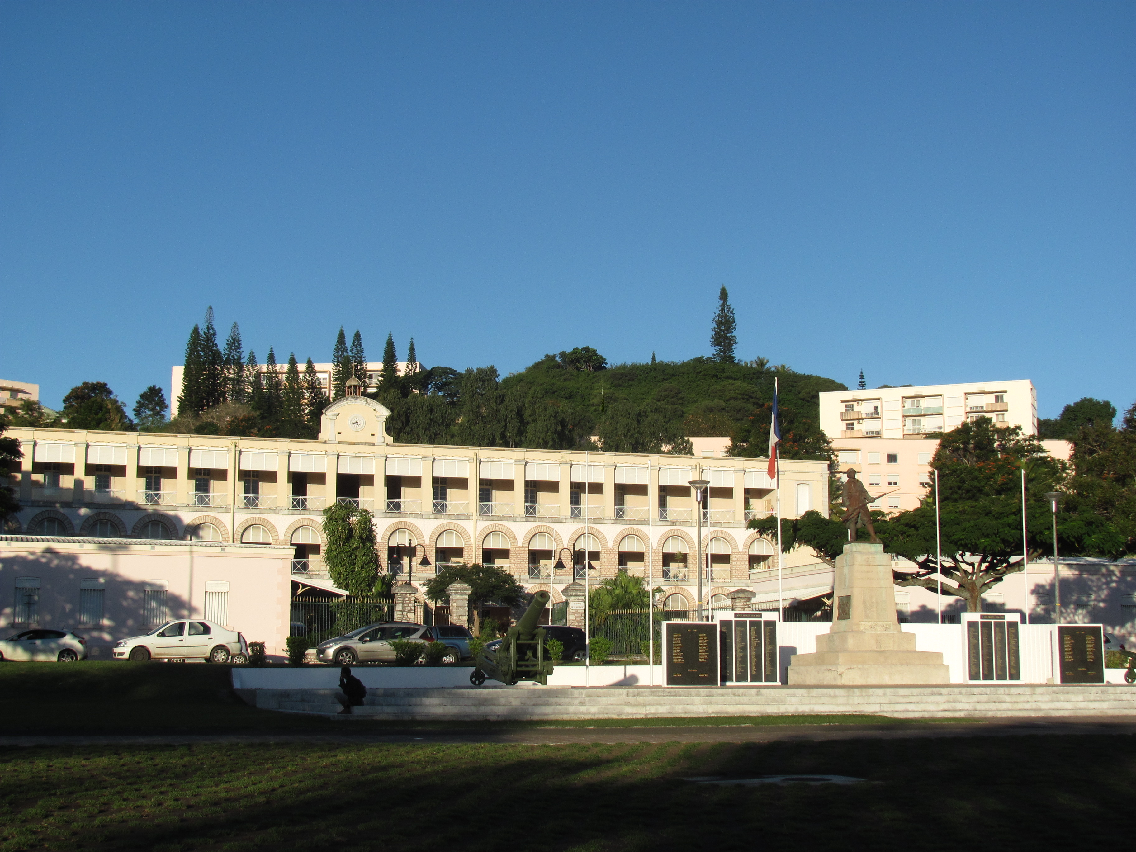 Gally-Passebosc Barracks, Nouméa, New Caledonia